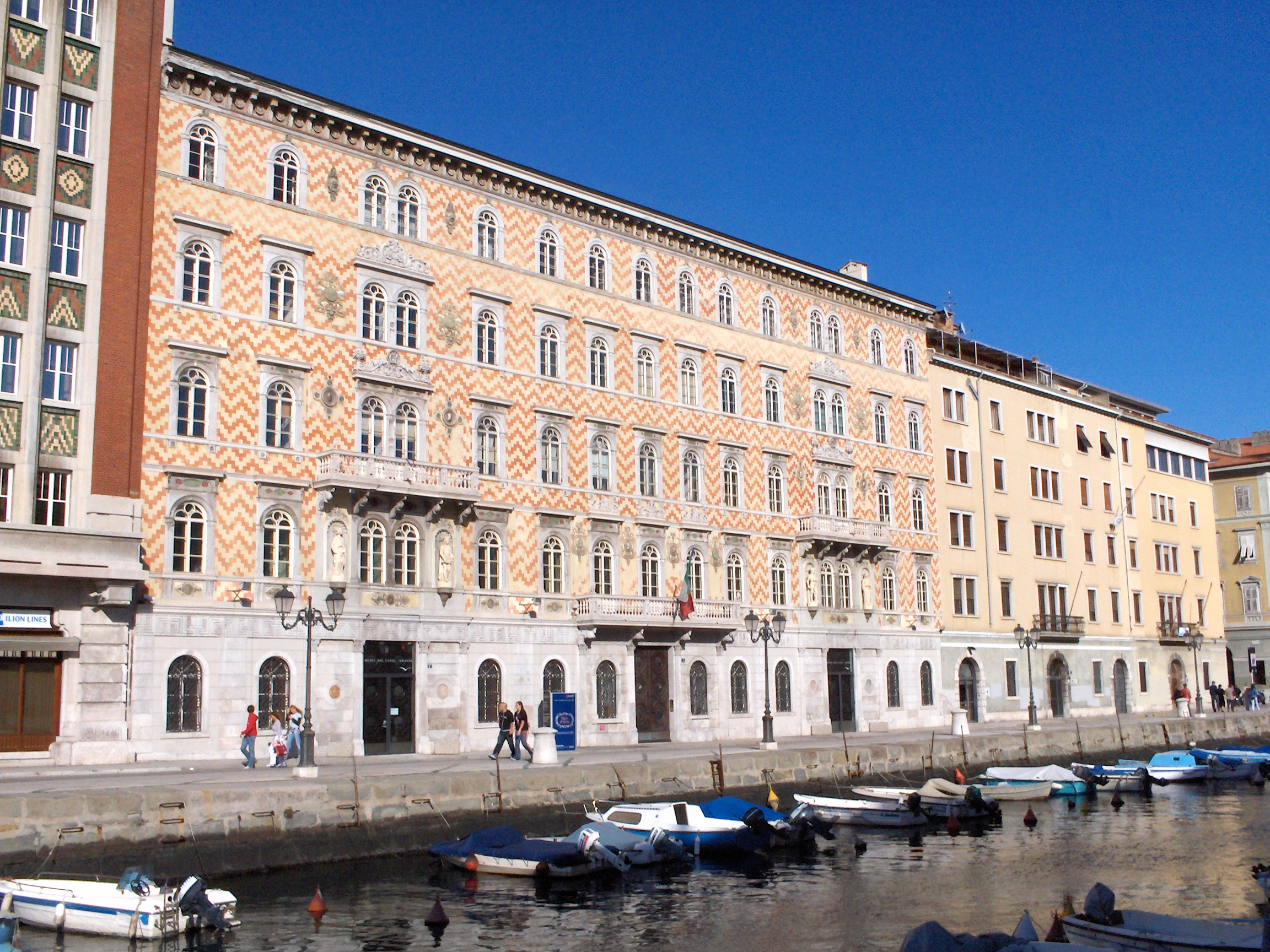 Palazzo Gopcevich, Trieste, Italy.